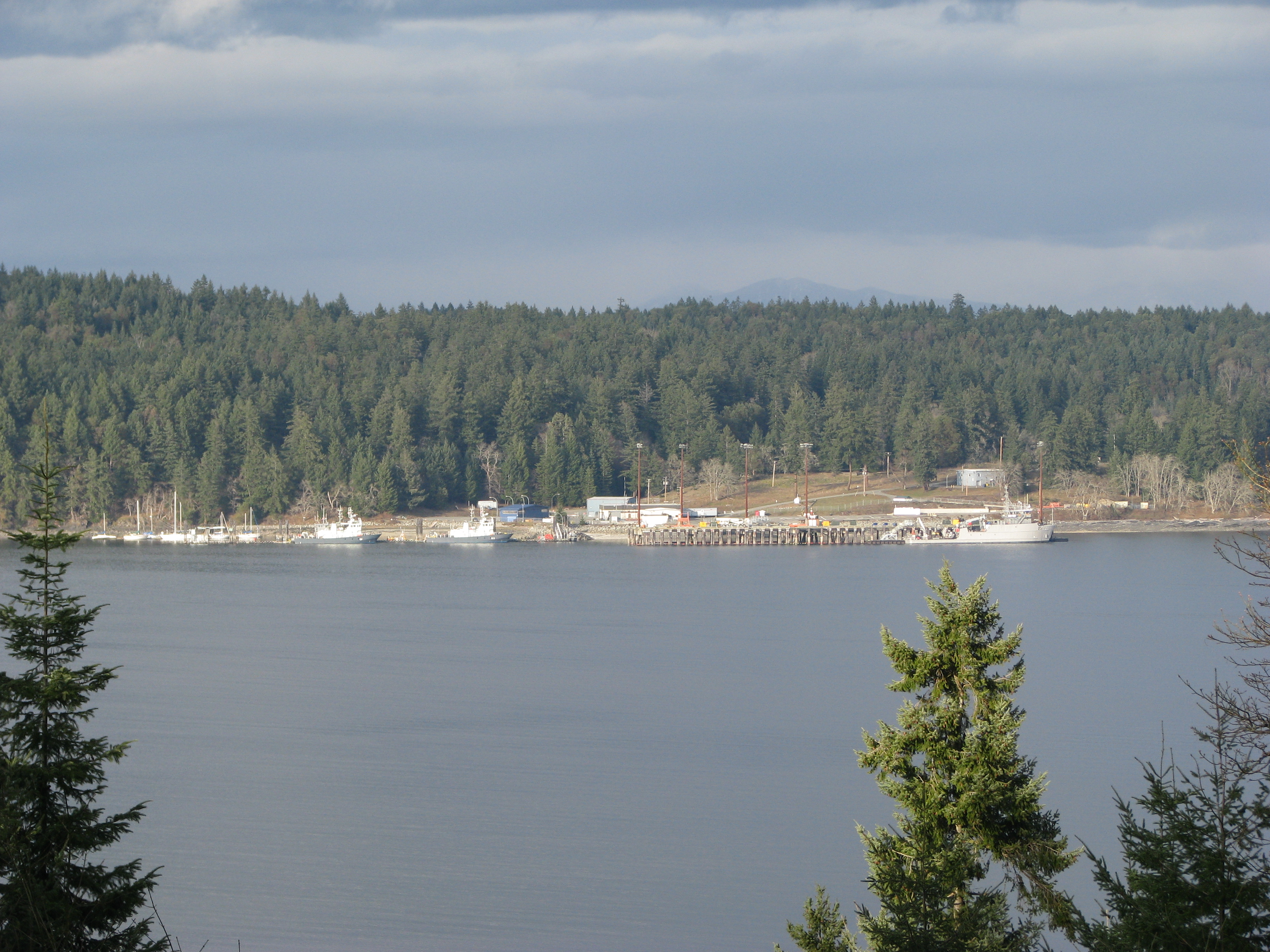 Canadian Forces Maritime Experimental Test Range(CFMETR) base at Nanoose Bay, British Columbia.